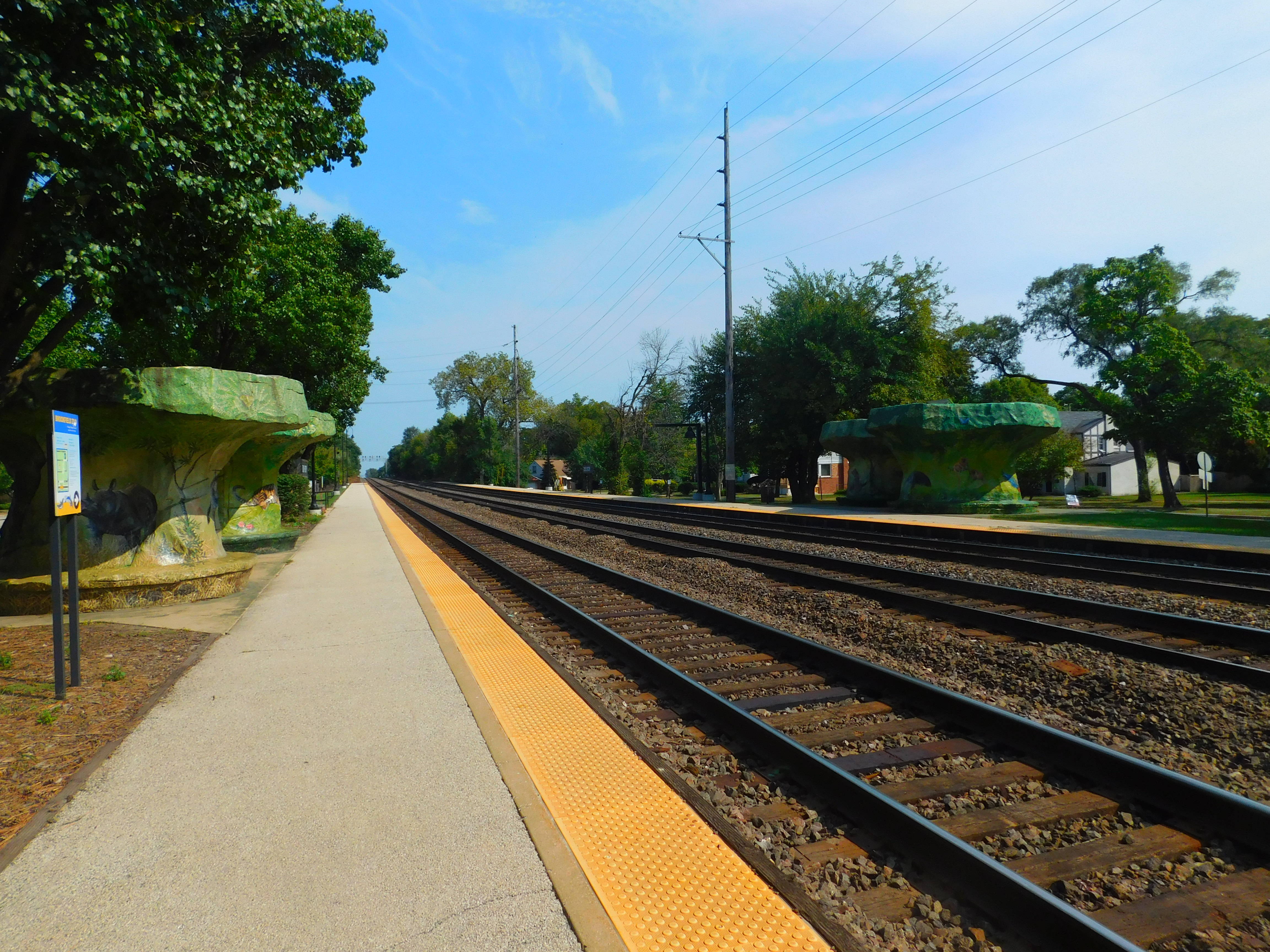 The Hollywood Metra station in September 2016.